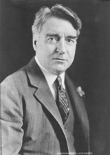 Senate Portrait of Royal S. Copeland